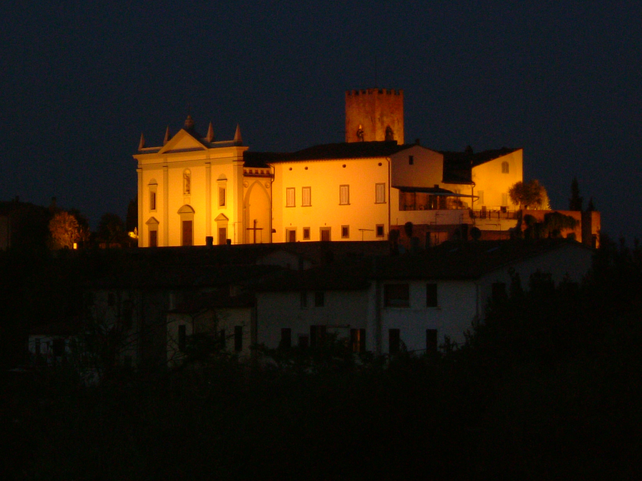 Santuario della Madre dei bimbi